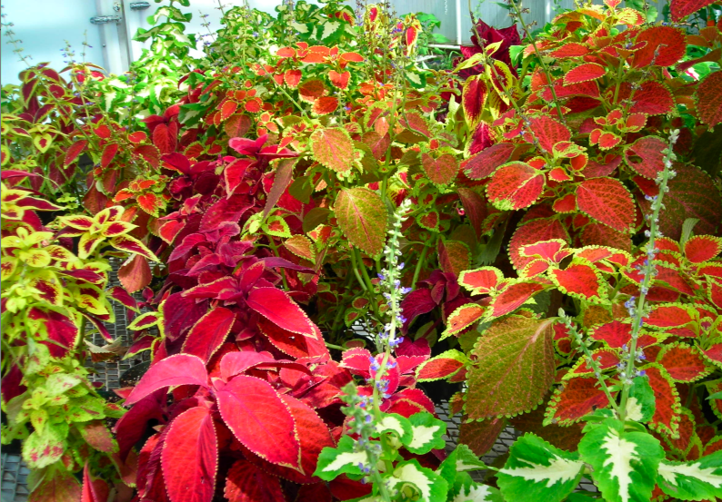 Several varieties of Coleus growing in the Humboldt State University Greenhouse.